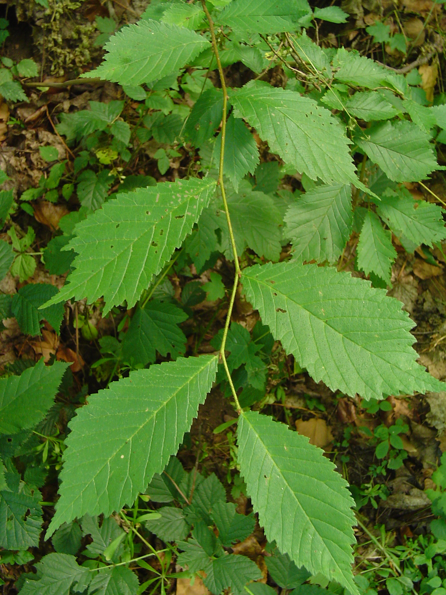 Ulmus glabra, shot in Massif Central, France, near city of Clermont-Ferrand